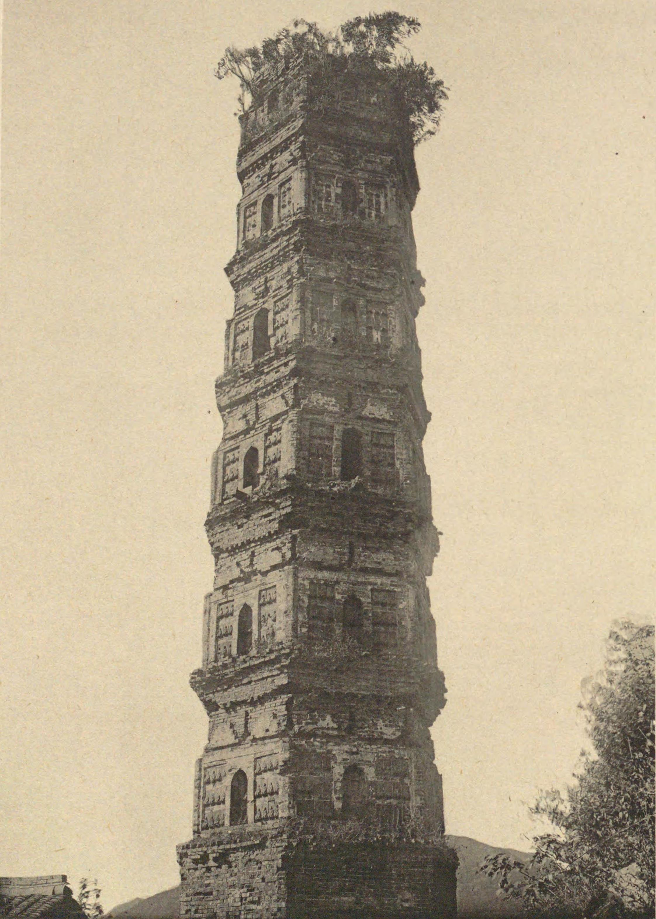 Qianfo Tower and Jinfeng Tower in Taizhou, Zhejiang, China.